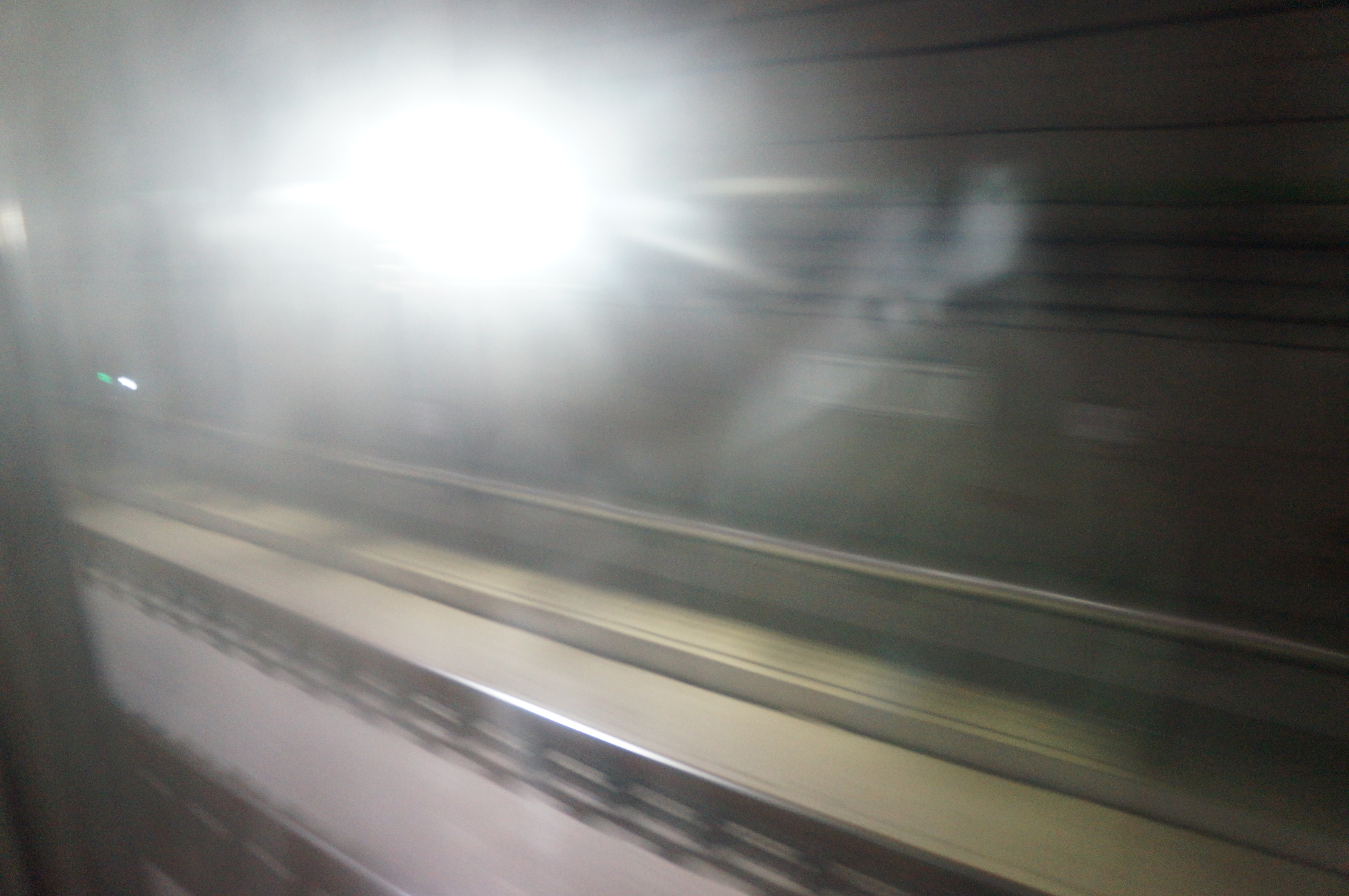 201606 K7722 inside the Beijing Underground Cross City Railway